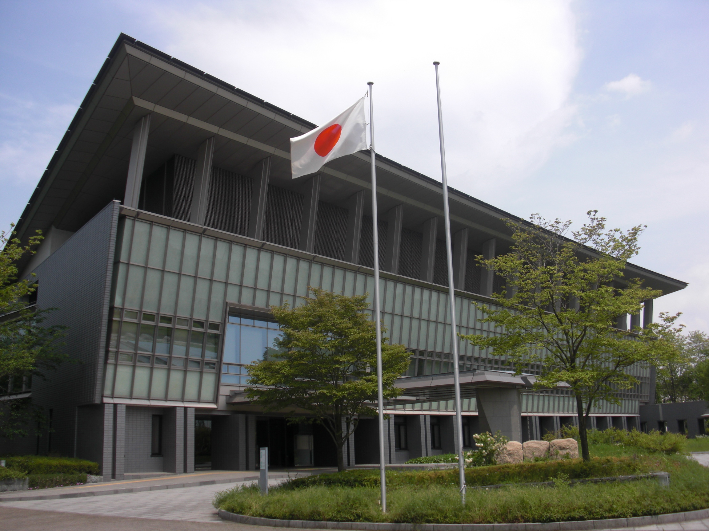 This is the National Archives of Japan Tsukuba Annex, which is located in Kamisawa, Tsukuba, Ibaraki, Japan.